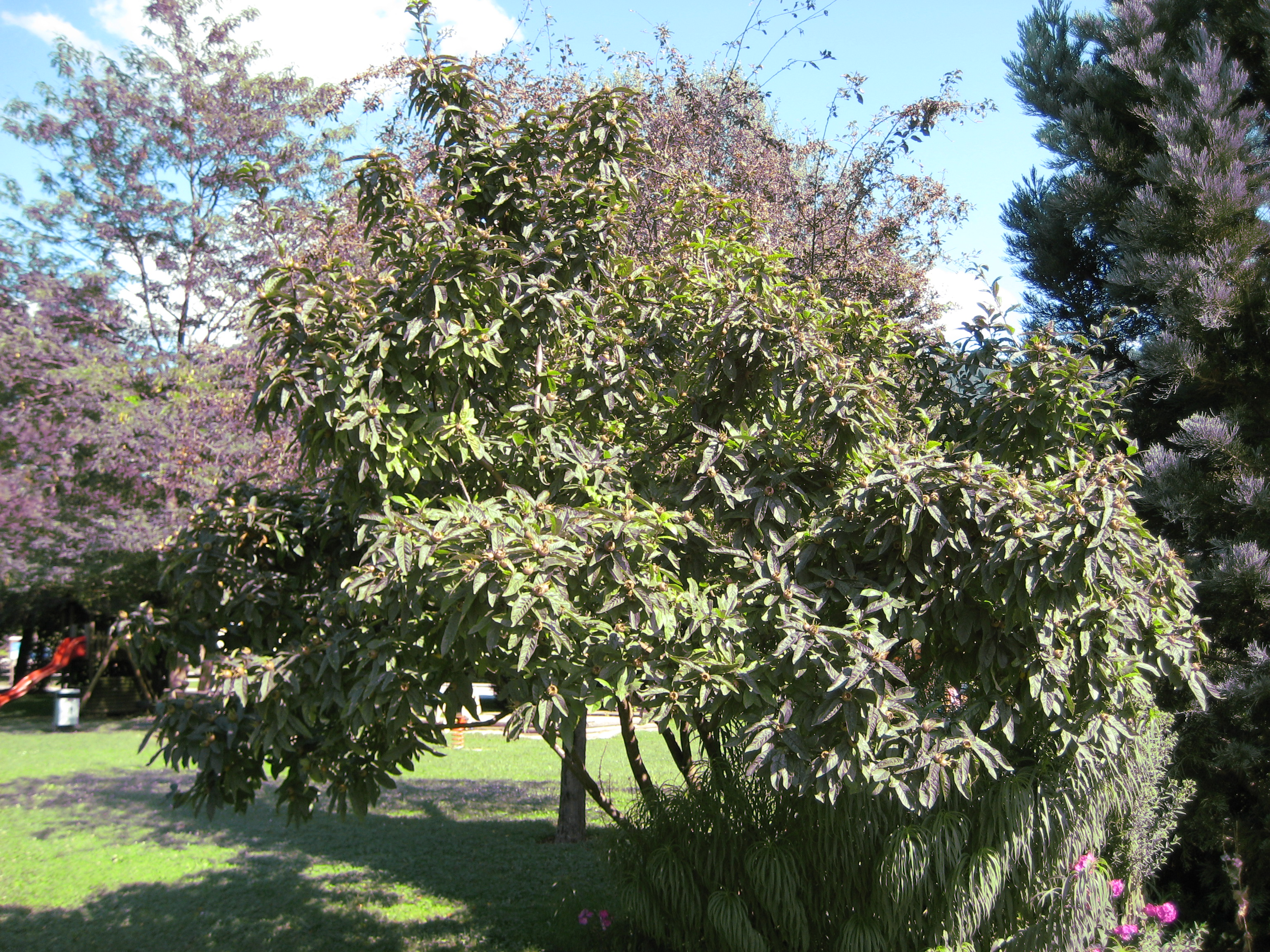 Medliar tree (Mespilus germanica)